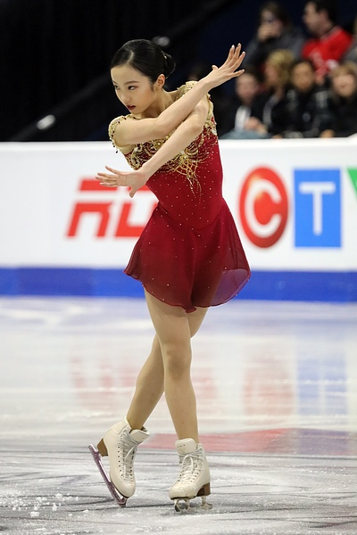 Photos – Skate Canada 2017 – Ladies (Marin HONDA JPN – 5th Place)